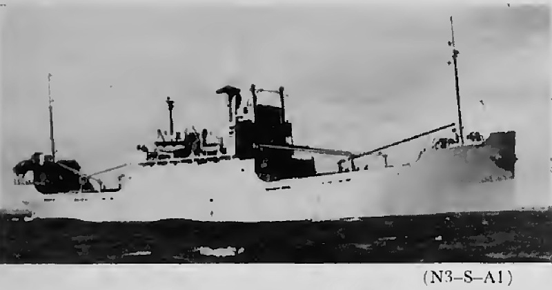 Maritime Commission type N3-S-A1. N3-S-A2 variant similar in appearance with oil vs. coal fired boilers. (Note: This image does not represent the N3-M-A1 diesel powered type that became U.S. Navy's Enceladus cargo class. That variant had the deck house aft rather than midships.)